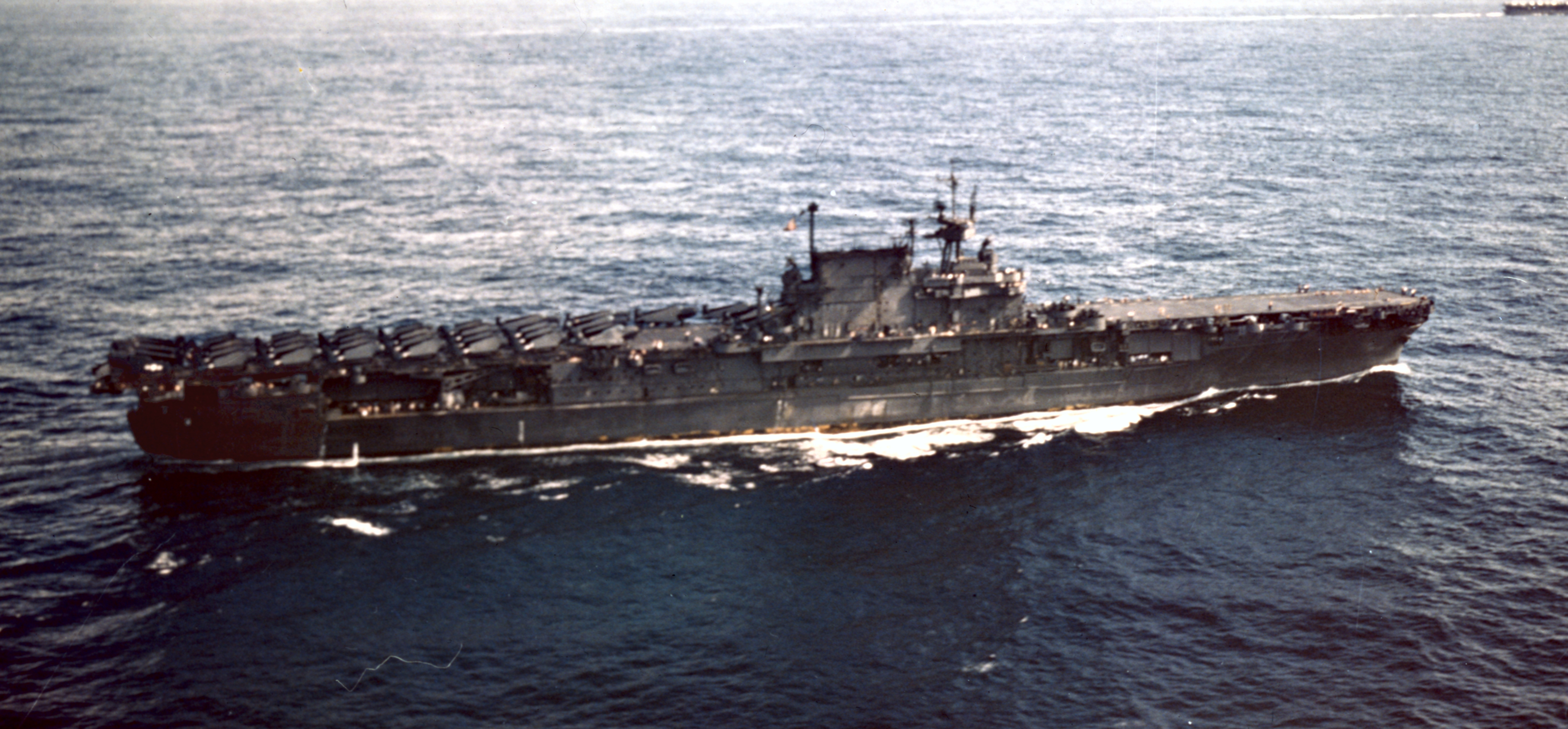 The U.S. Navy aircraft carrier USS Enterprise (CV-6) en route to New York to take part in the Navy Day Fleet review, October 1945. She is steaming in company with an Independence-class light carrier -- in the right distance-- and another warship.